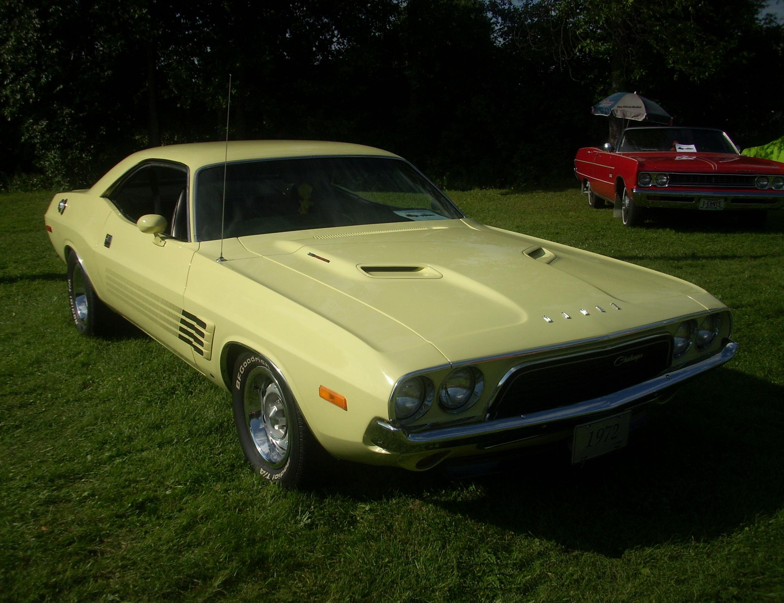 1972 Dodge Challenger photographed at the Rassemblement Rigaud Car Show.